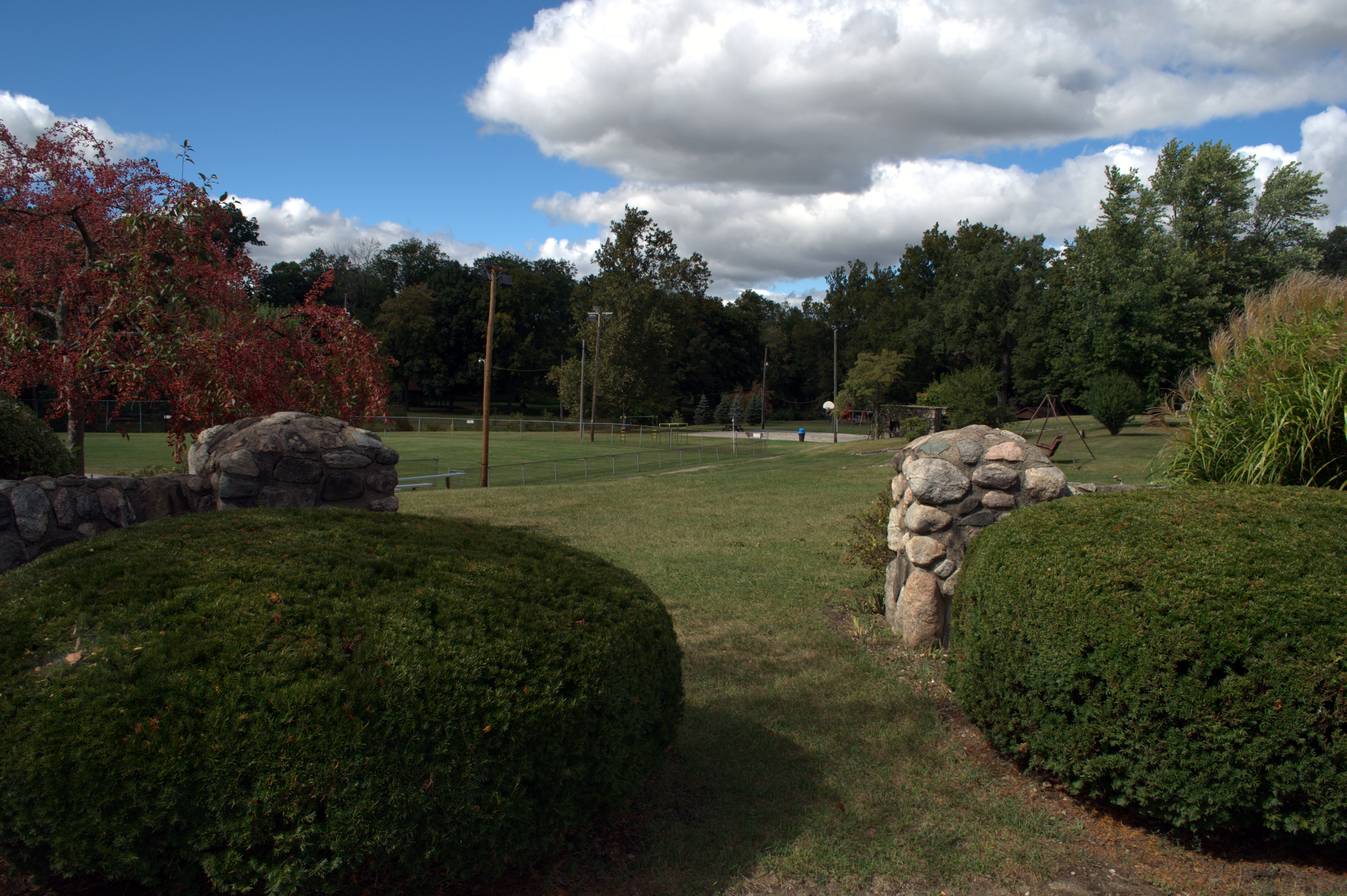 Overlooking North Liberty Park (309 N. Jefferson St. North Liberty, Indiana) from the 'main entrance' North Liberty Park was eligible for the National Register under Criterion A in the areas of recreation and social history because it is associated with the New Deal's work programs and recreational development in the 1930s. It is also eligible under Criterion C because the site as a whole, and its individual resources: the bathhouse, the bandstand, the stone planter, the fieldstone walls and steps, et al., are representative of the work and style of architecture and park site development typical of the Works Progress Administration in St. Joseph County. The park meets the standards of integrity as set forth in the multiple property nomination New Deal Work Projects in St. Joseph County.